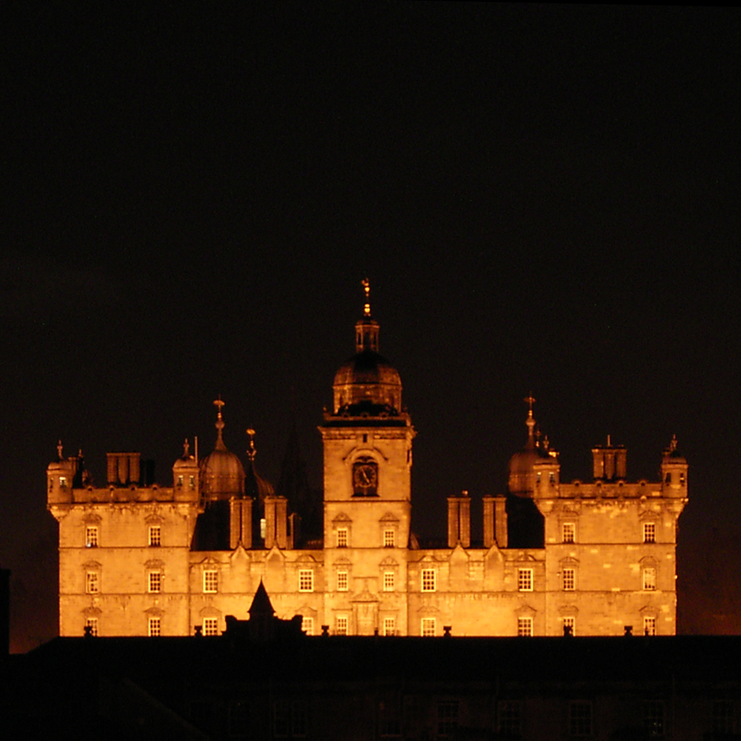 George Heriot's School, Edinburgh, Scotland, seen from the Grassmarket just below Edinburgh Castle